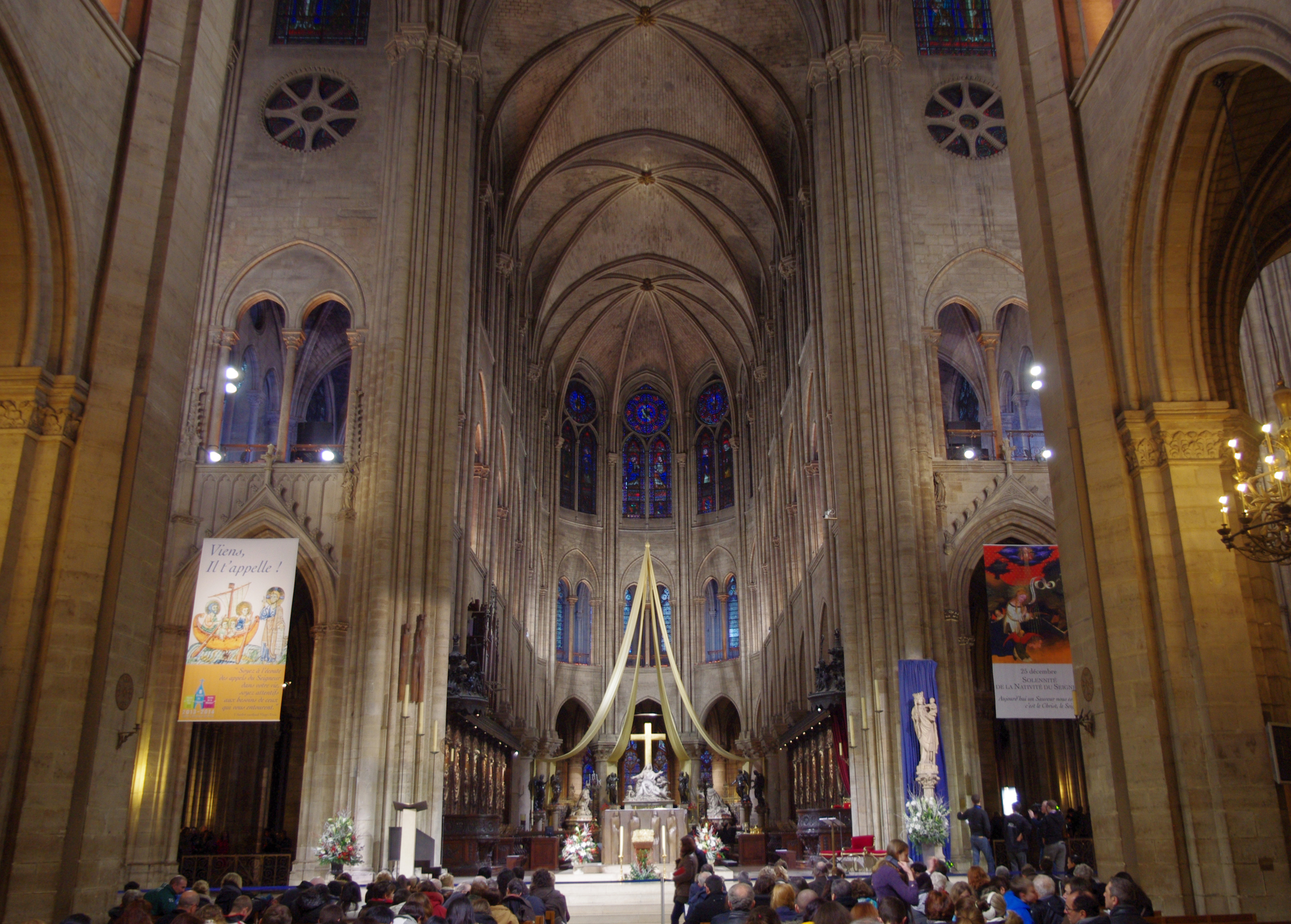 The Start of Christmas Eve Service in Notre Dame de Paris.